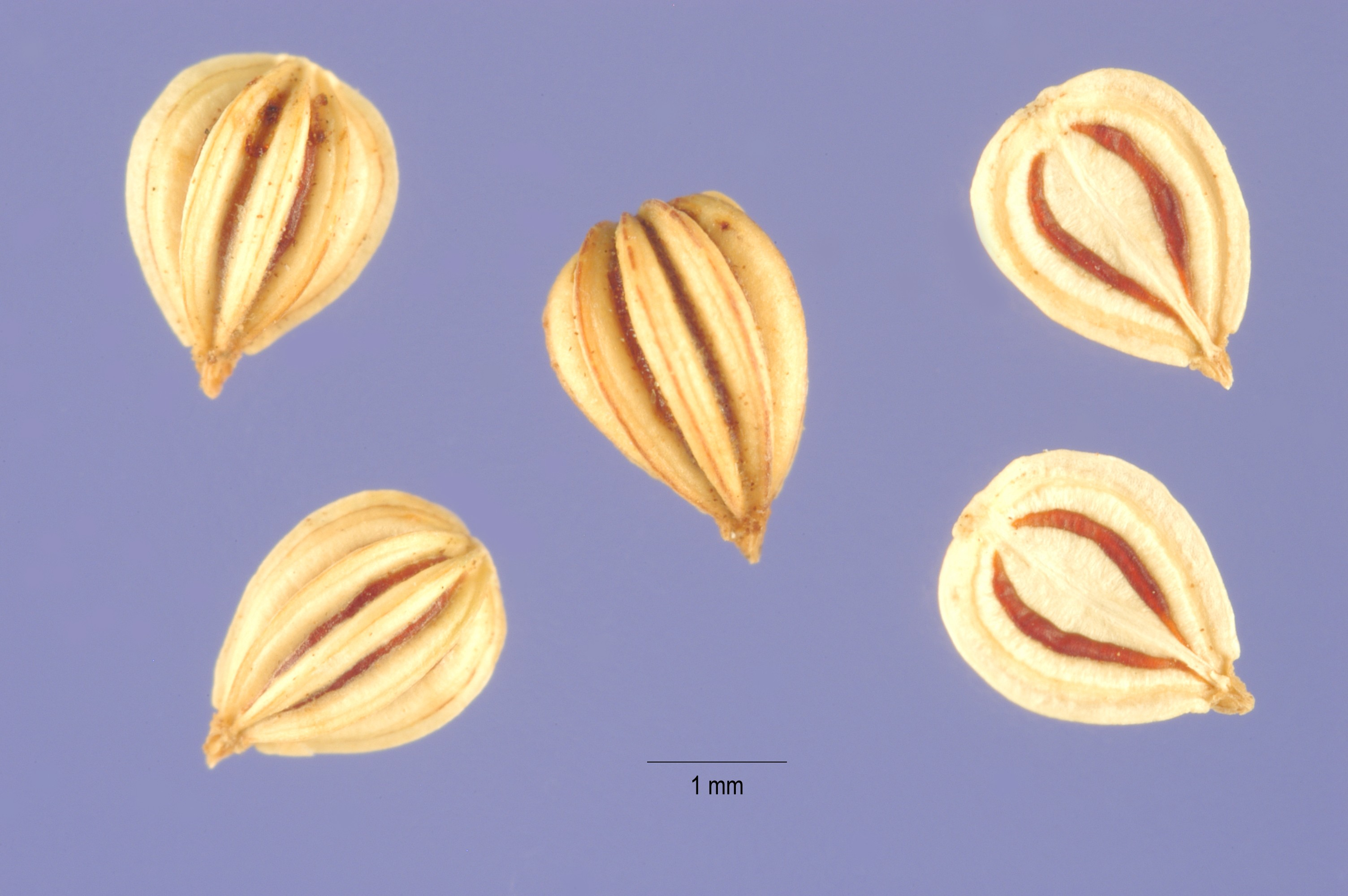 Fool’s Parsley. Seeds from Gembloux, Belgium.